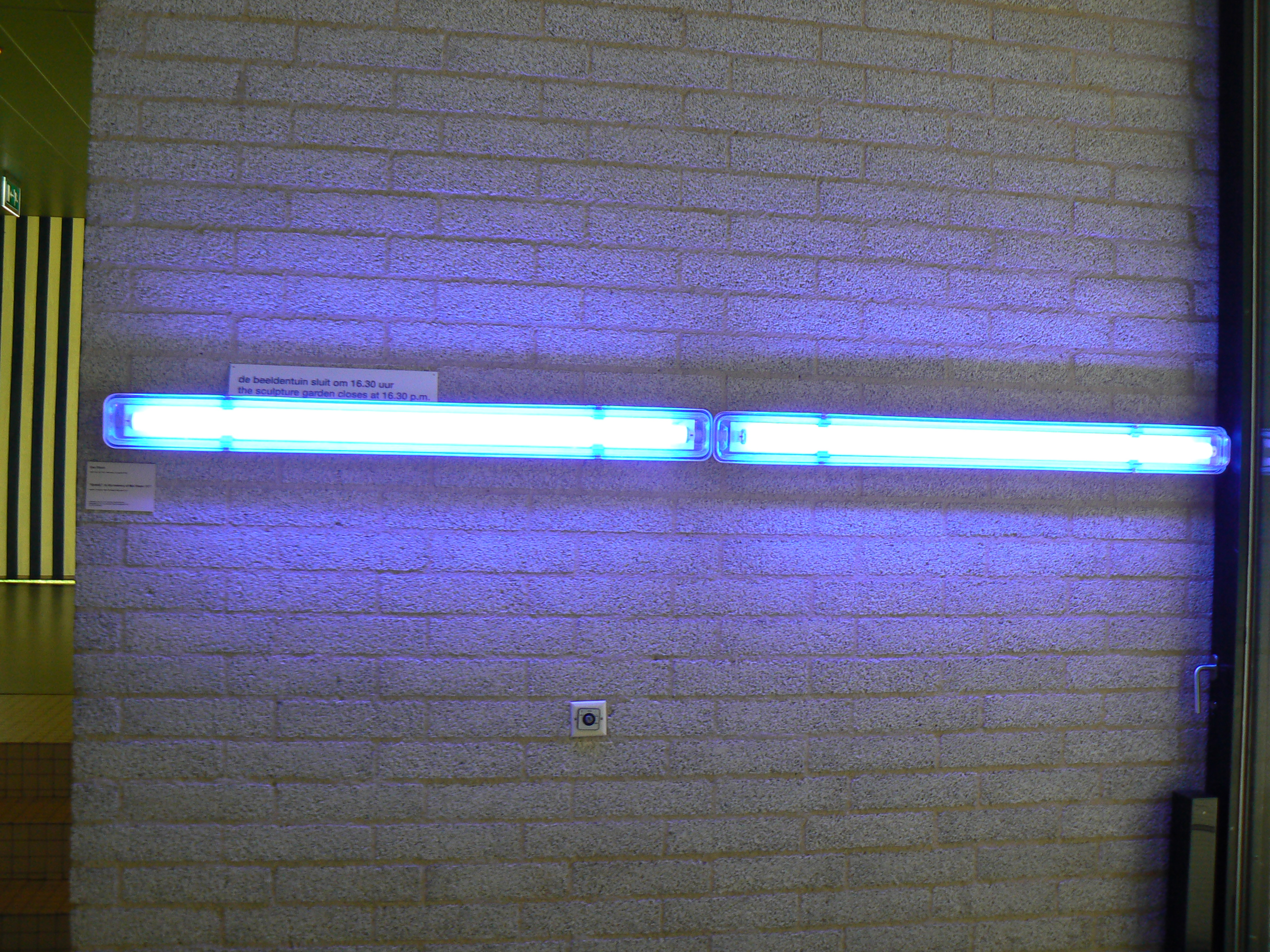 sculpture/installation Quietly, to the memory of Mia Visser (1977) by Dan Flavin in sculpturepark KMM/The Netherlands